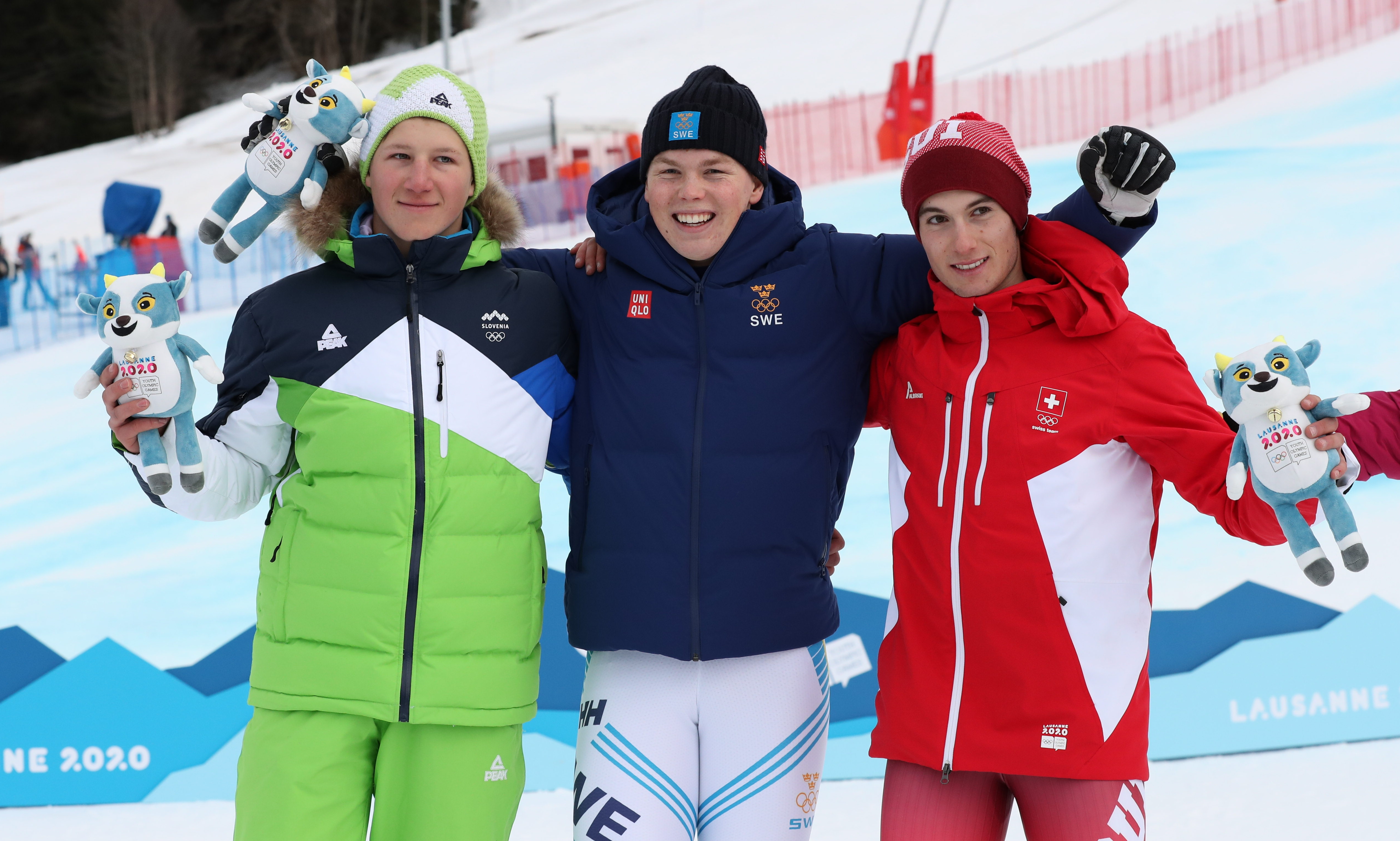 Men's Super G at the 2020 Winter Youth Olympics in Lausanne